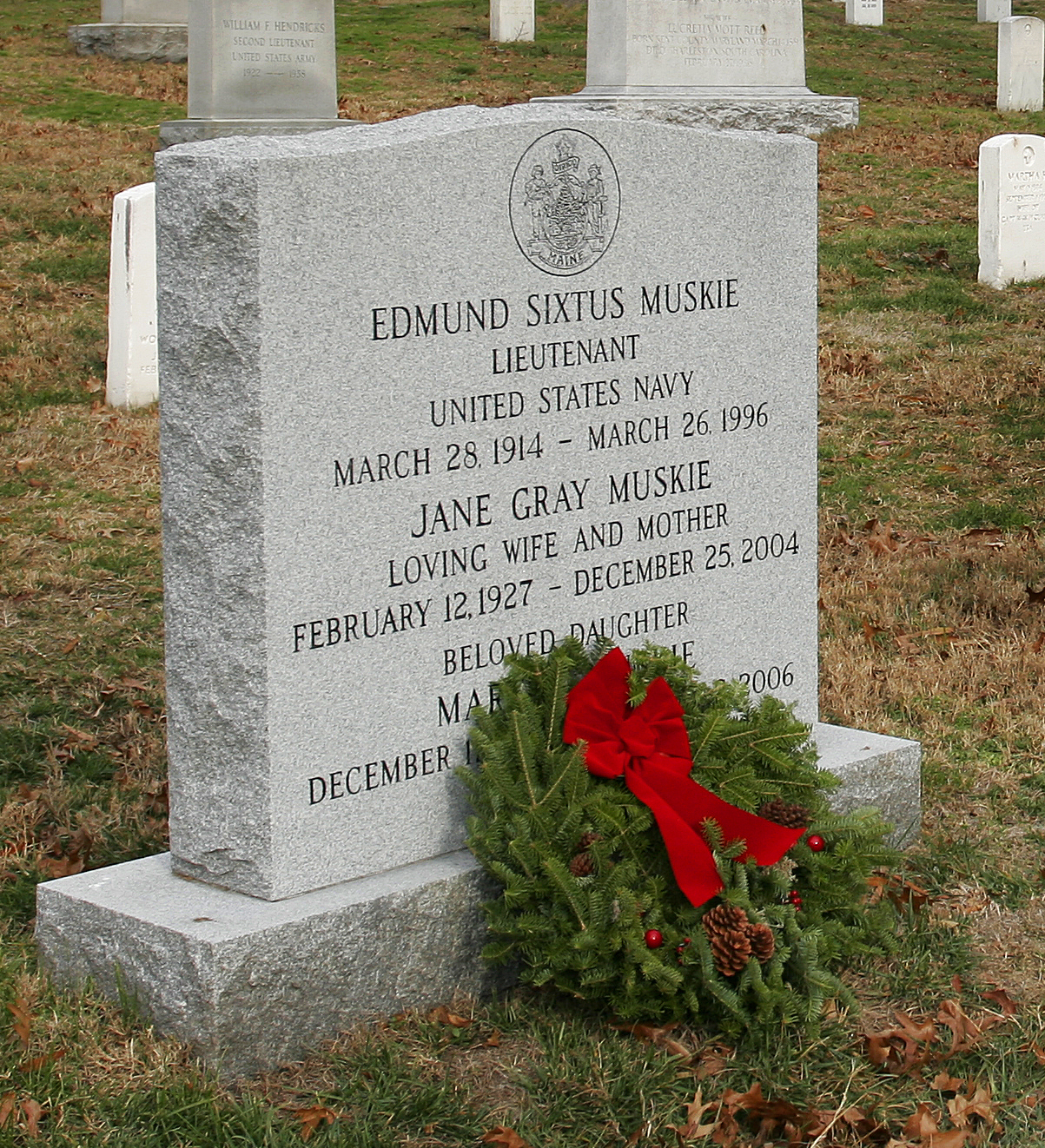 Maine State Rep. Joseph L. Tibbetts places a wreath and salutes the grave of Edmund Muskie, former Maine senator and secretary of state, during an annual event to honor and remember veterans at Arlington National Cemetery Dec. 15, 2007.